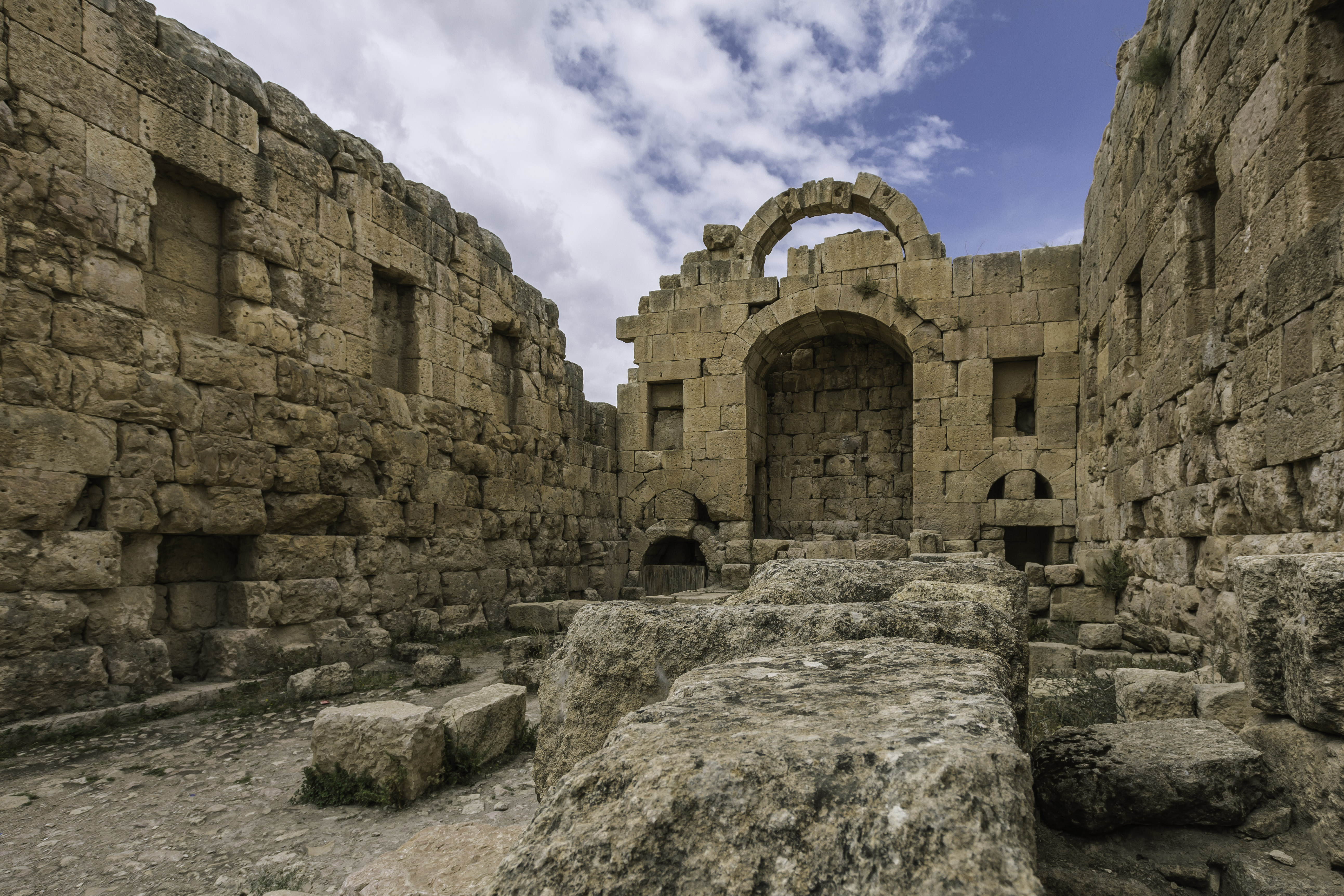 The Jerash Temple of Artemis is a Roman temple in Jerash, Jordan. The temple was built on one of the highest points and dominated the whole city. Ruins of the temple are still one of the most remarkable monuments left of the ancient city of Gerasa (Jerash).